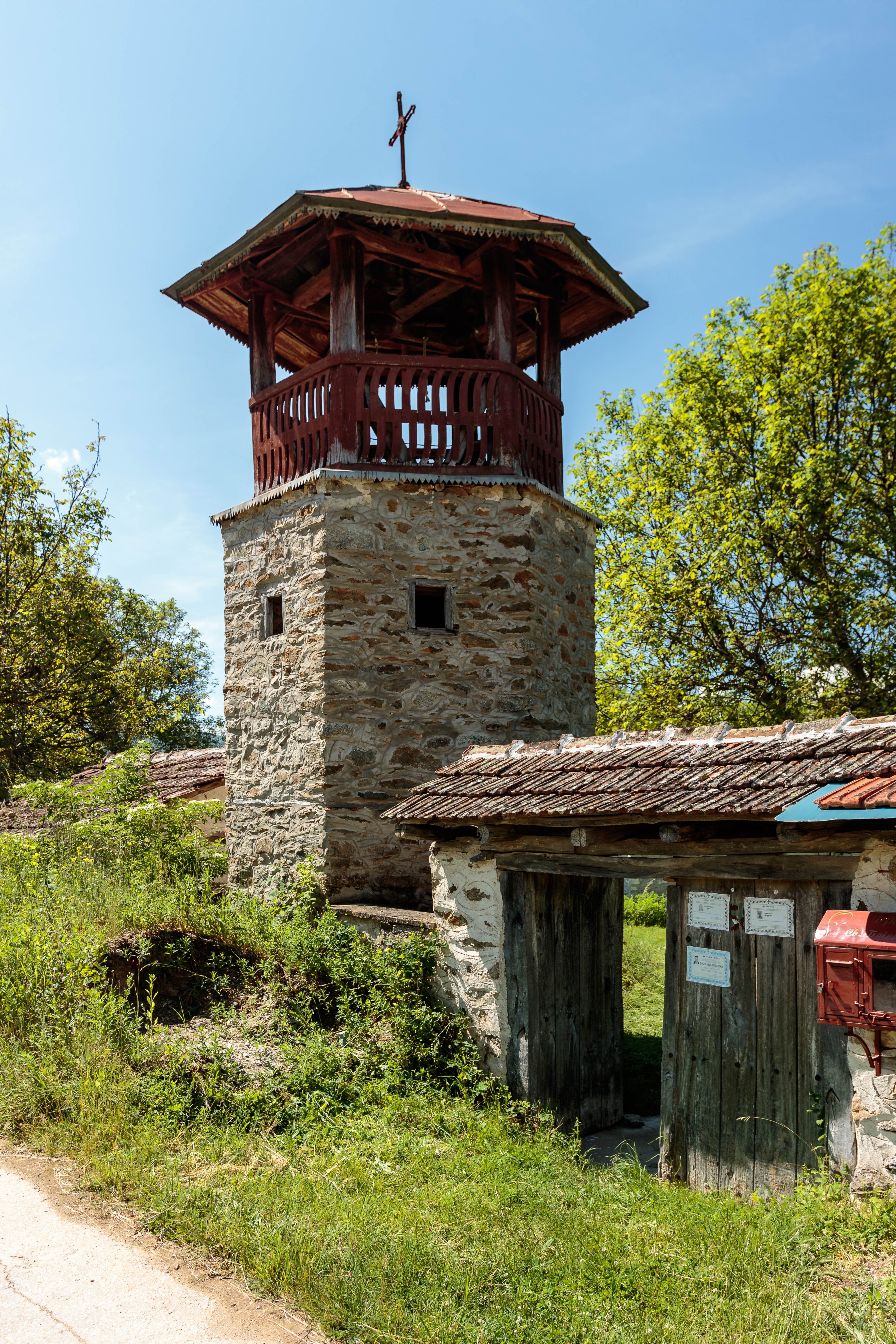 View of Church of the Theotokos in the village Rastojca